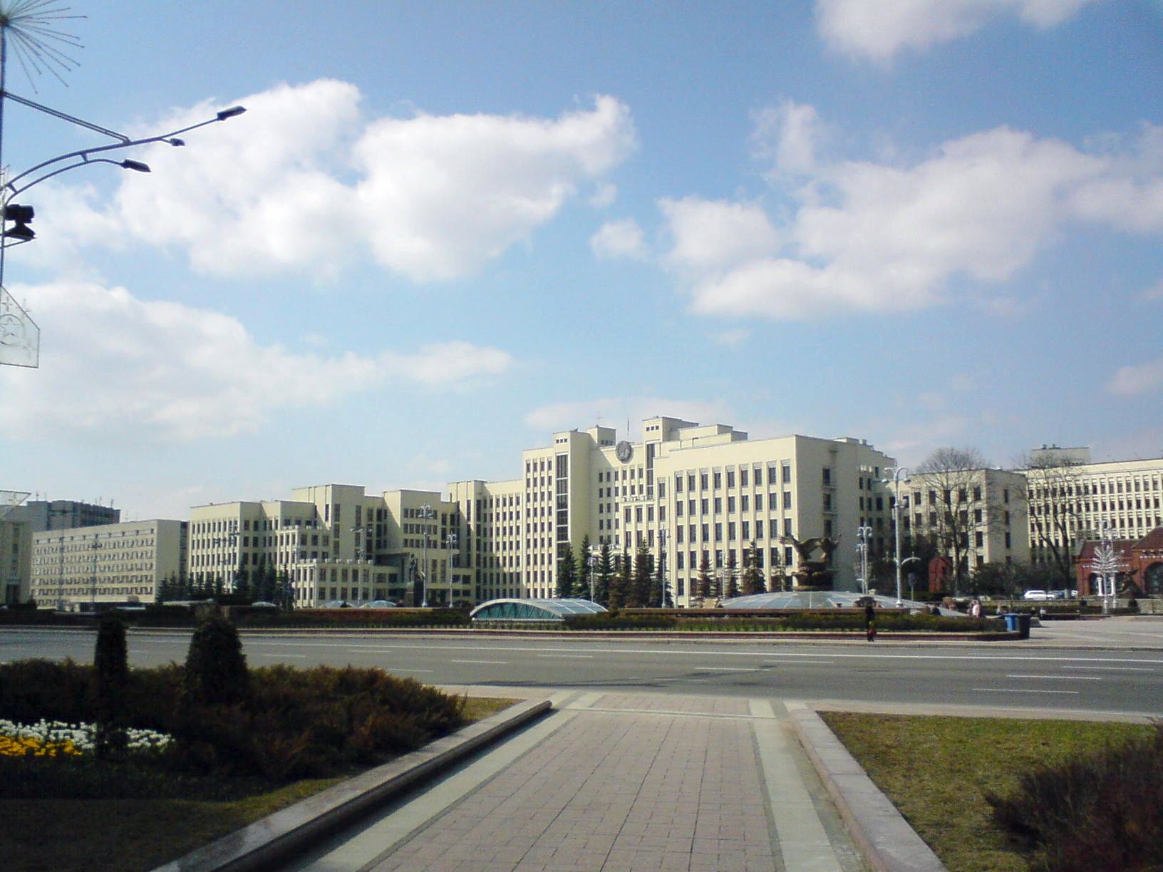 goverment